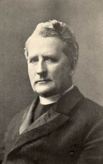 Photograph of Bishop Ethelbert Talbot